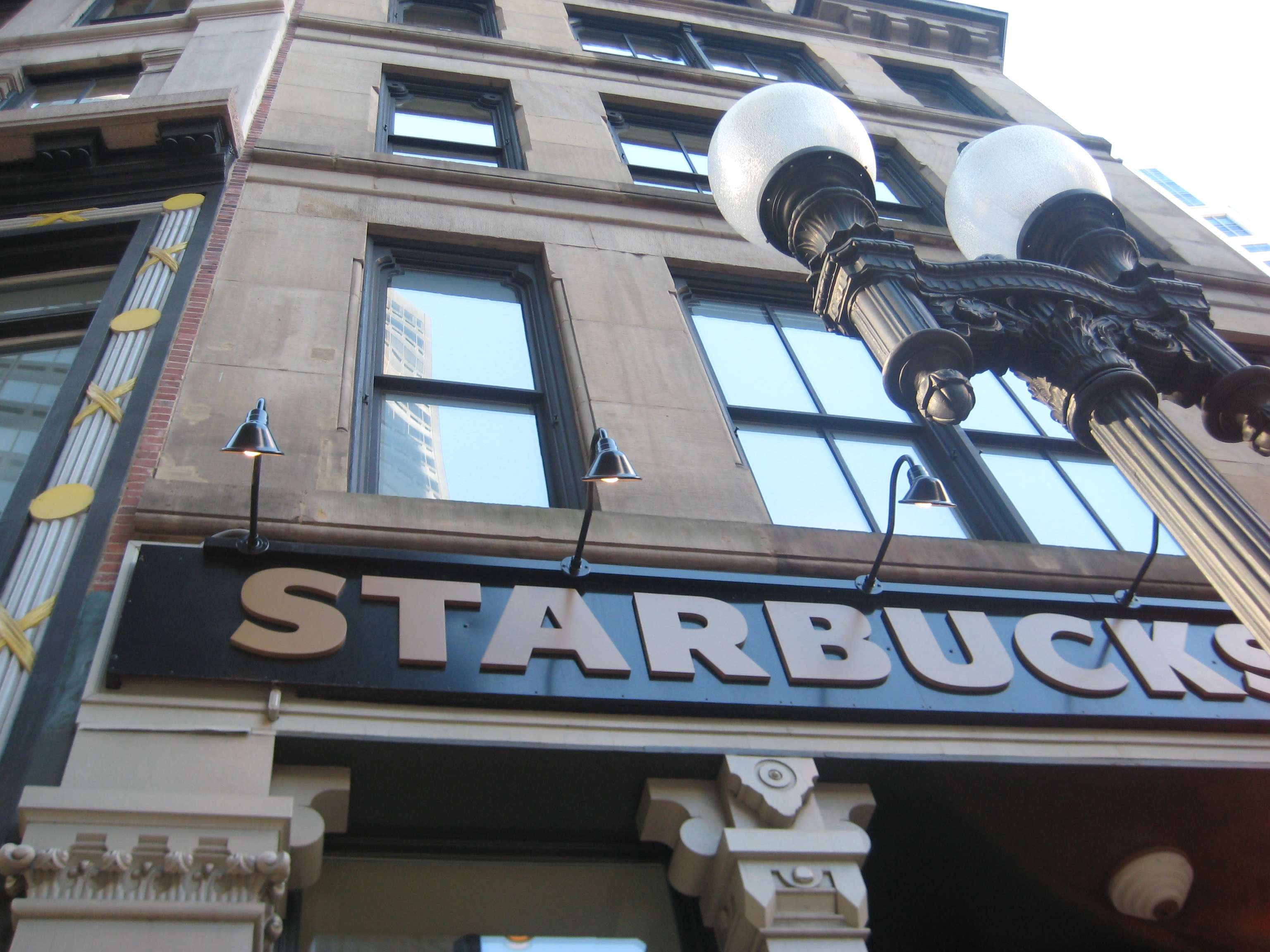 Starbucks in the Financial District near South Station in Boston, United States. October 2007 photo by John Stephen Dwyer.